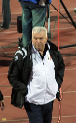 Hristo Bonev - former bulgarian soccer player and coach, national player